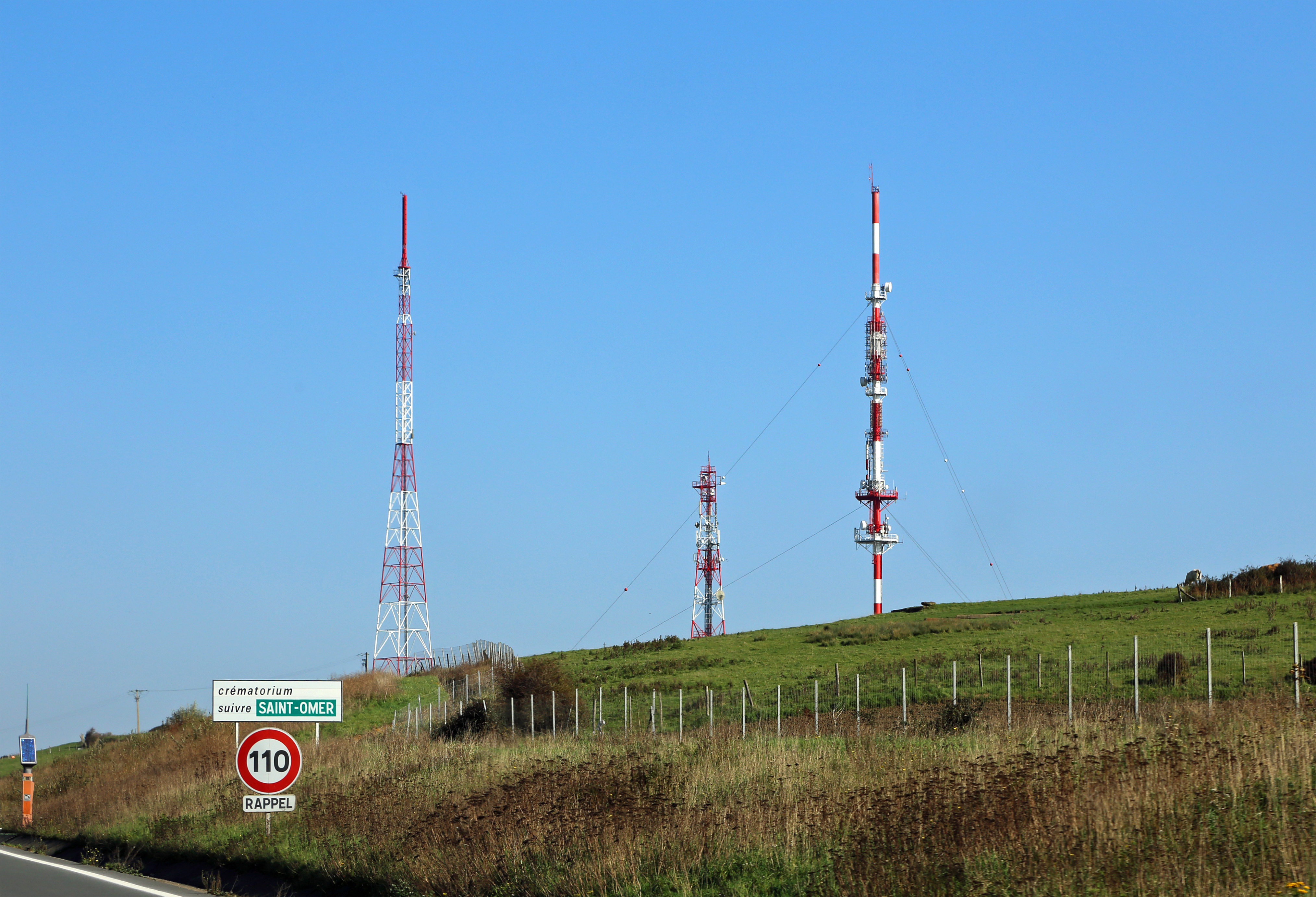 Saint-Martin-Boulogne (Pas-de-Calais department, France): radio and television masts of the transmitter of Mont Lambert (Émetteur du Mont Lambert), owned by Télédiffusion de France (TDF)